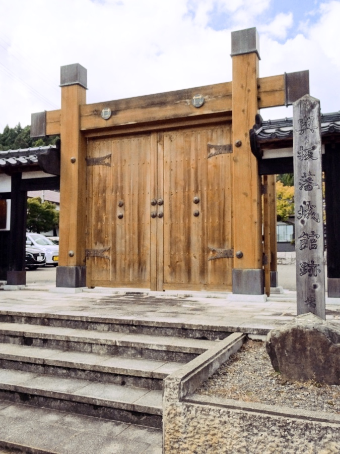 Gateway to the Yoiya Jin'ya, Nagaoka, Niigata, Japan